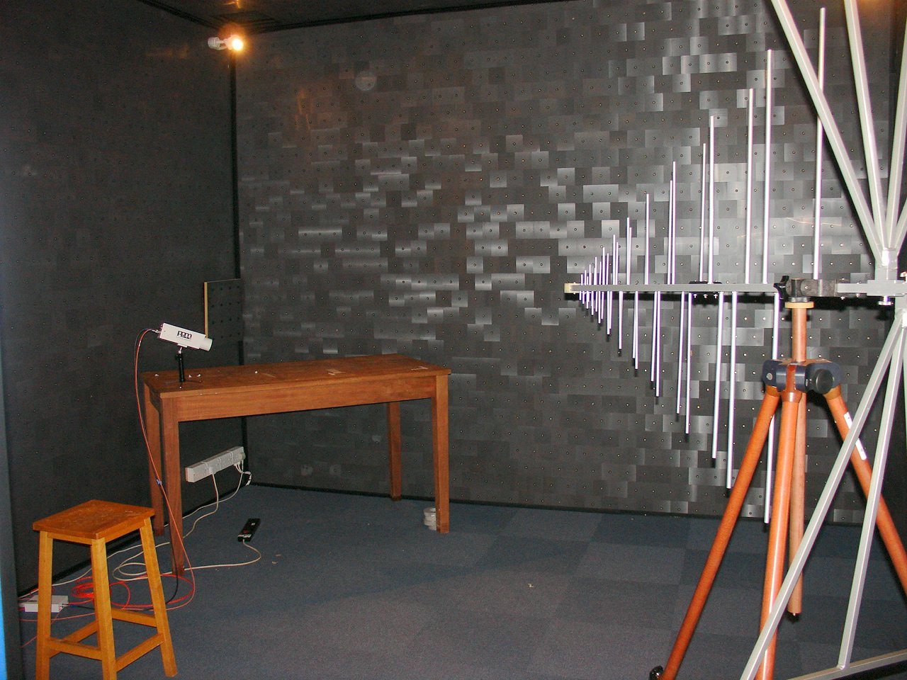 Inside of shielding room